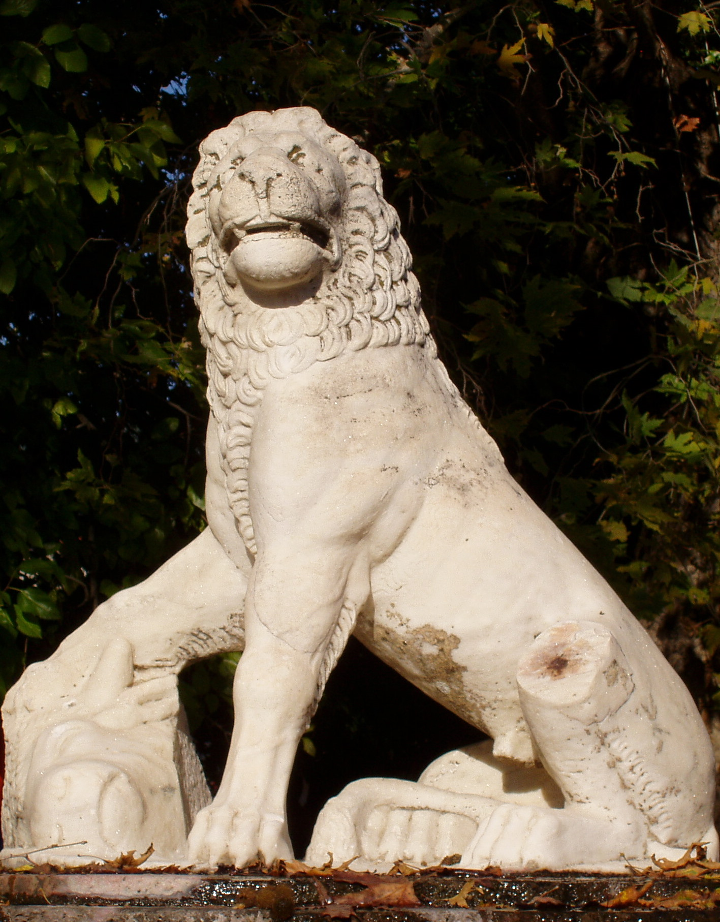 The statue of the Lion of Kaunos was found during illegal excavations at Kaunos in 1965 and brought to Koycegiz, where it was put on a square near to the port and boulevard.